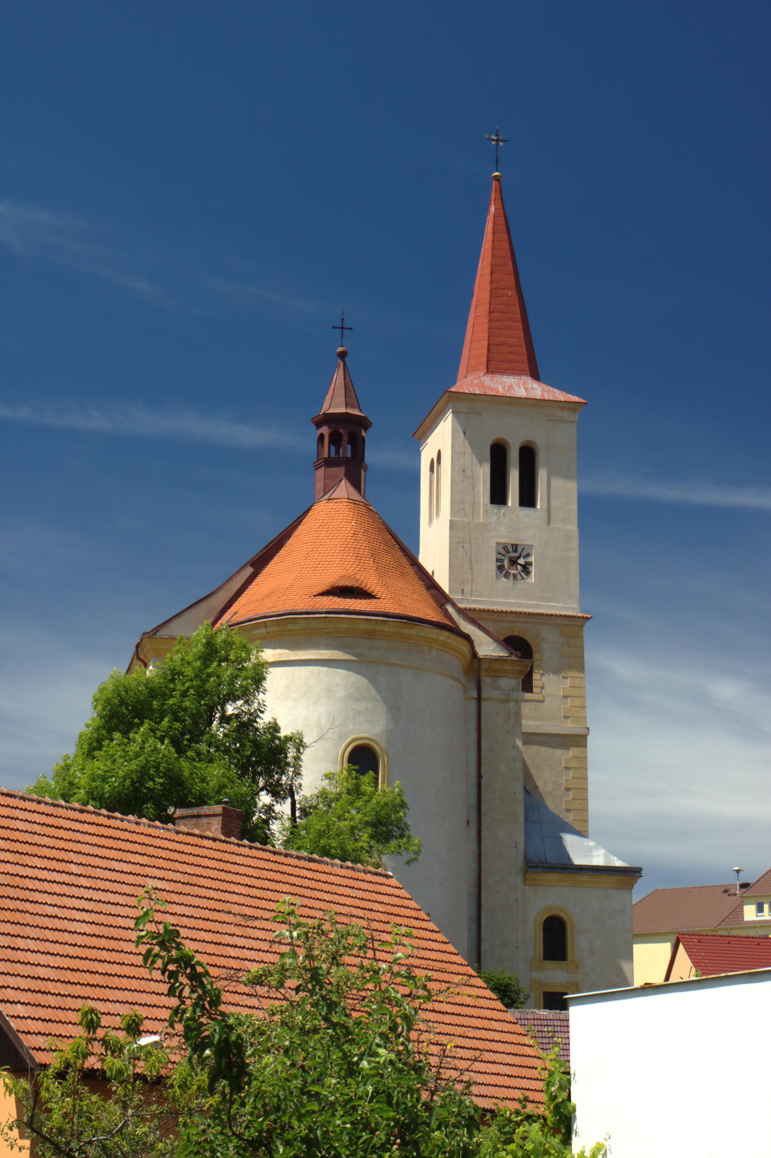 St. Peter and Paul church in Žitenice, Ústí Region, CZ